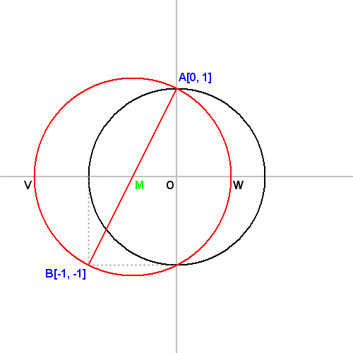 Determining of the Carlyle Circle needed to draw a regular pentagon